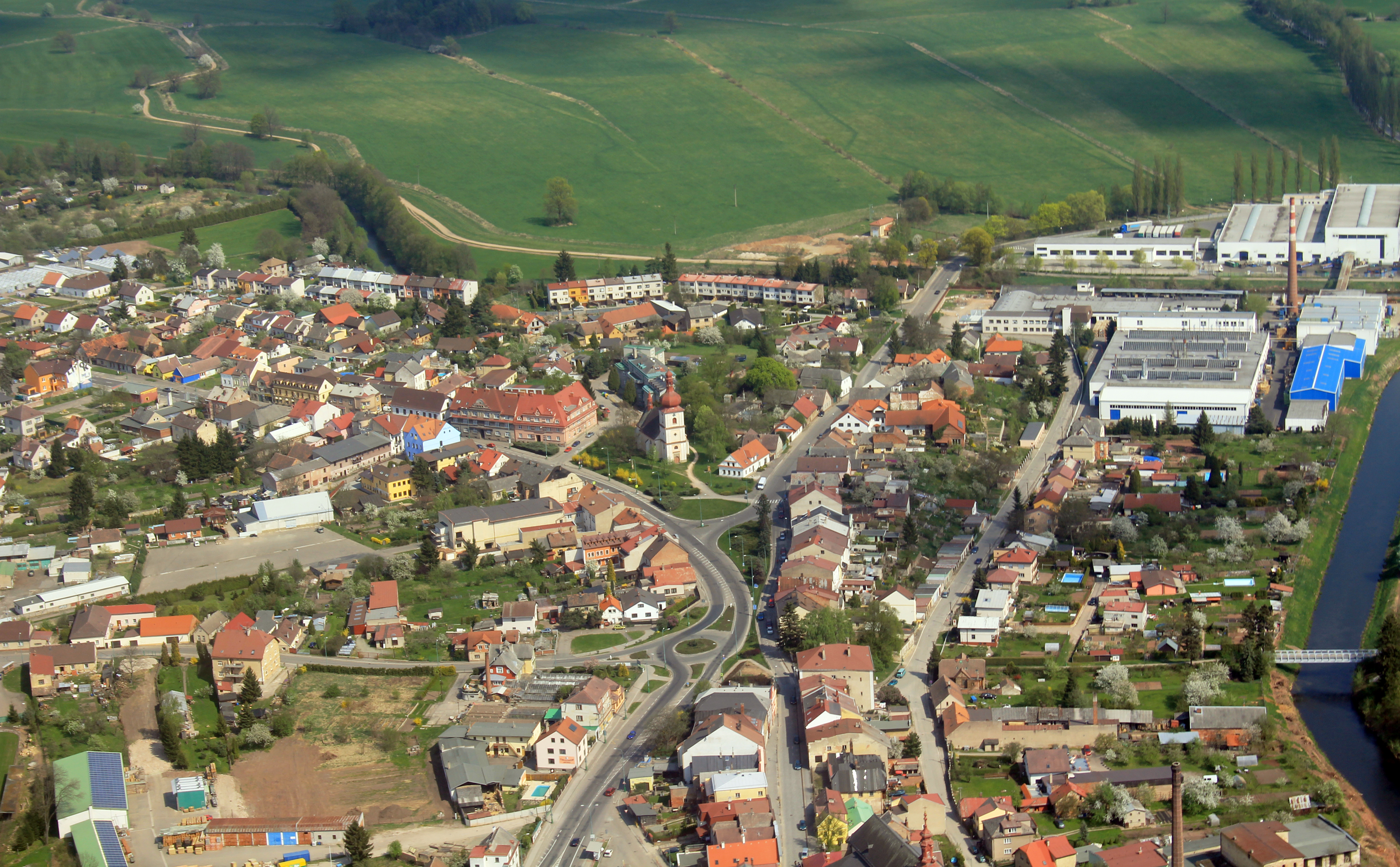 East part of town Jaroměř with Church of Saint James from air, eastern Bohemia, Czech Republic